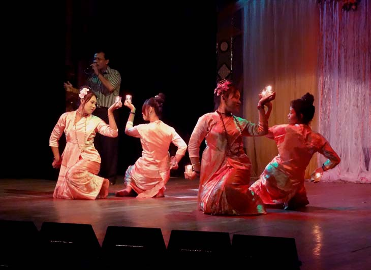 Marma Dance